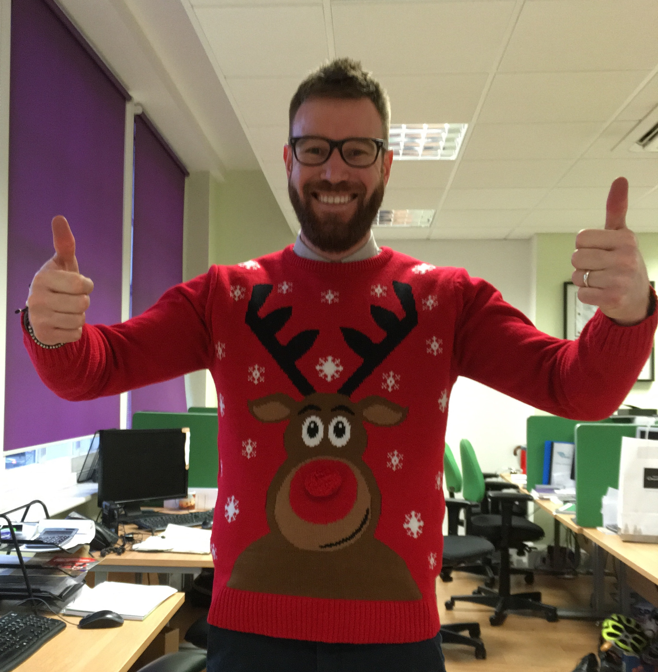 WestonR